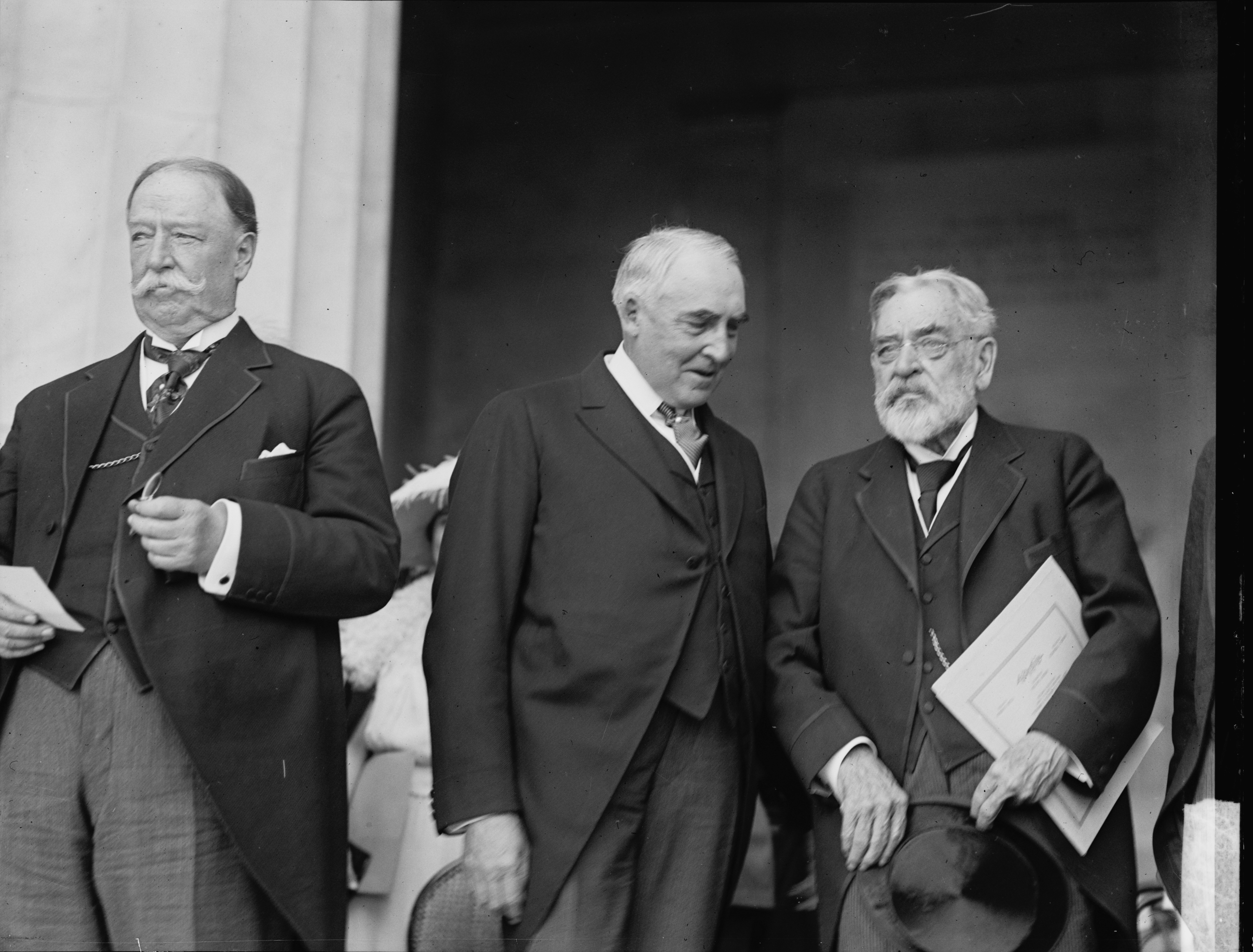 Chief Justice William Howard Taft (left) with President Warren G. Harding and former Secretary of War Robert Lincoln at the dedication of the Lincoln Memorial, May 30, 1922